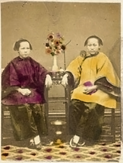 Rare photo of two women outside Ah Sing's Opium den, London England circa 1860's